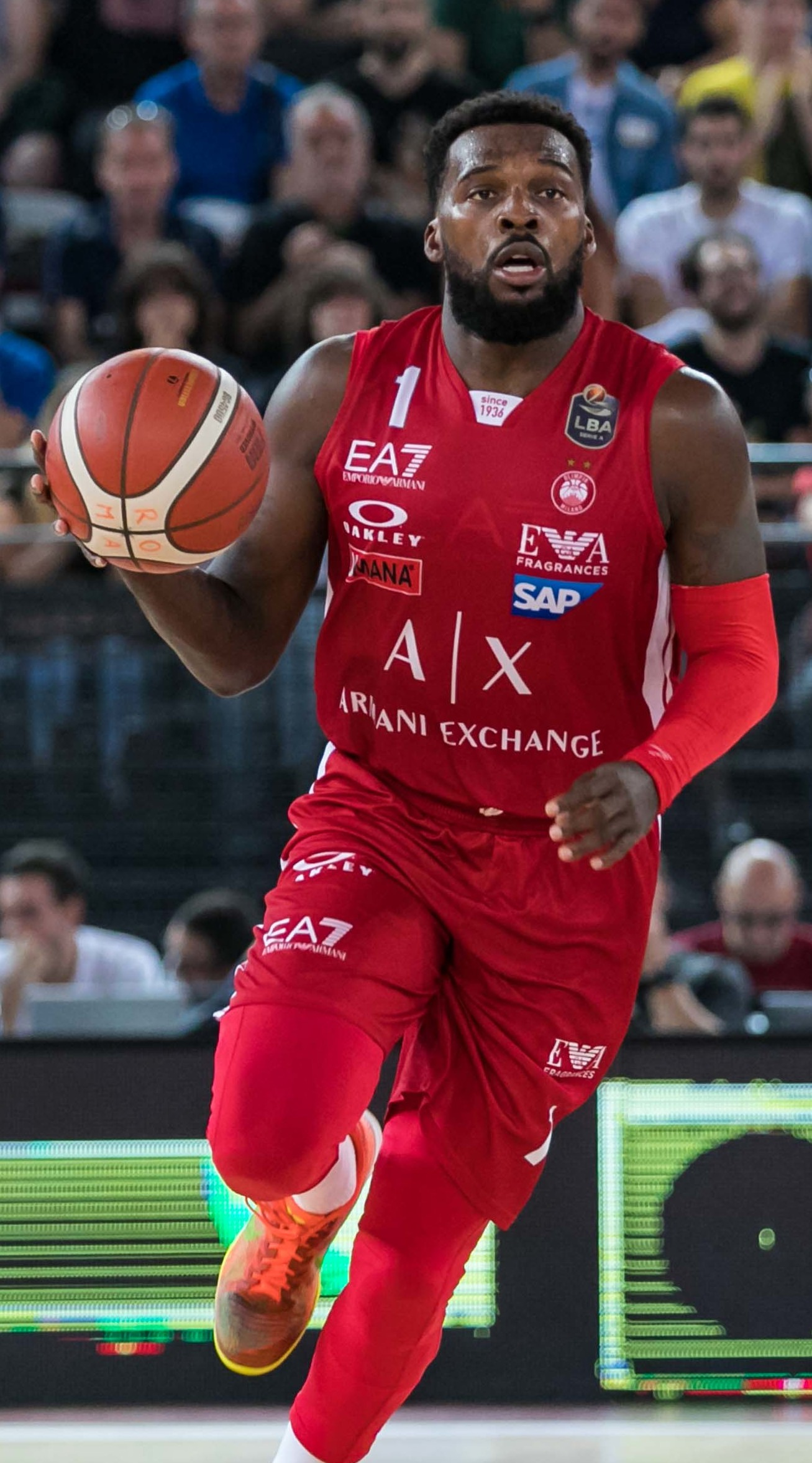 Virtus Roma - A|X Armani Exchange Milano Palazzetto dello Sport - Roma LBA Serie A